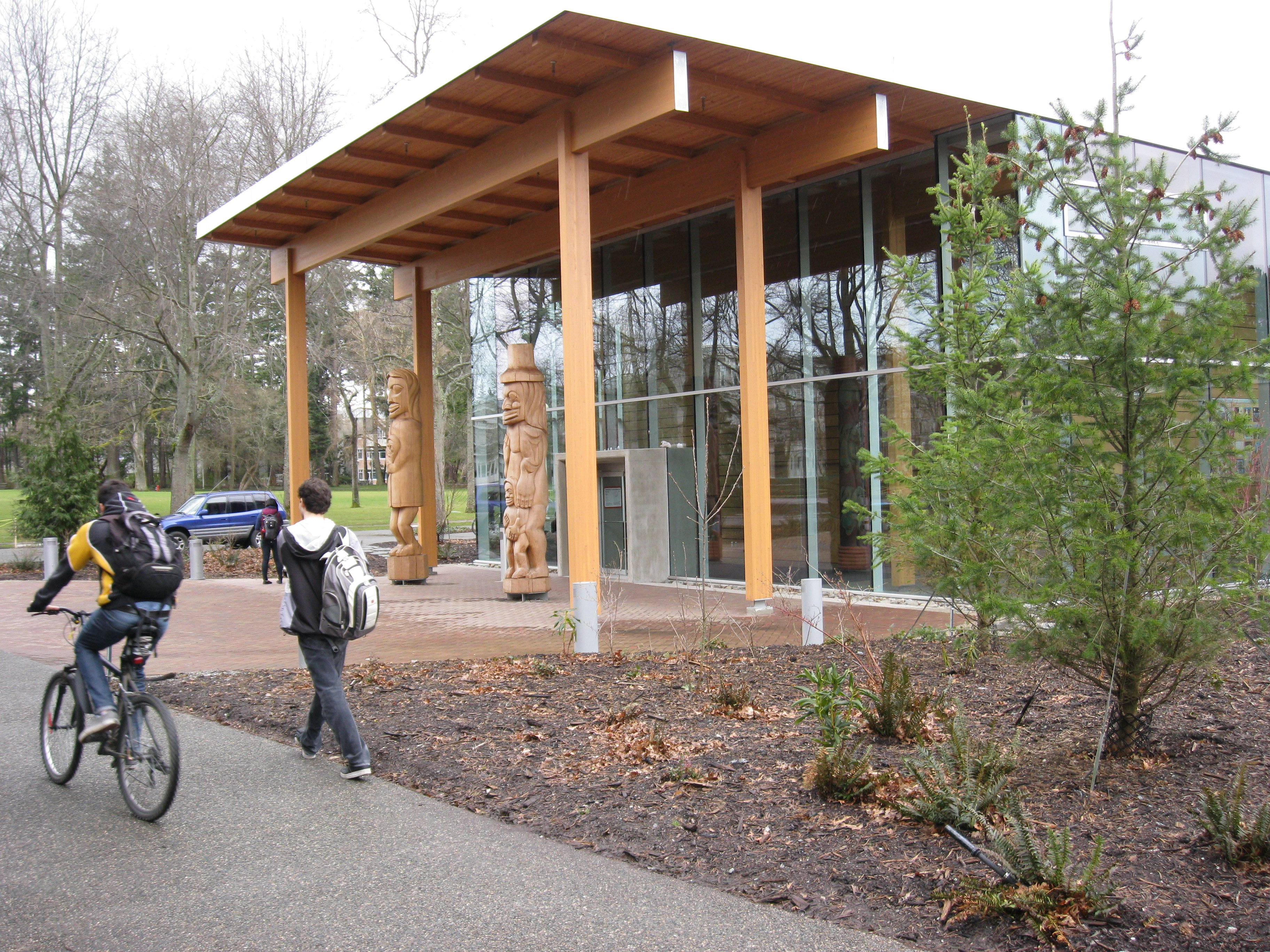 First Peoples house. READ INFO IN PANORAMIO/COMMENTS